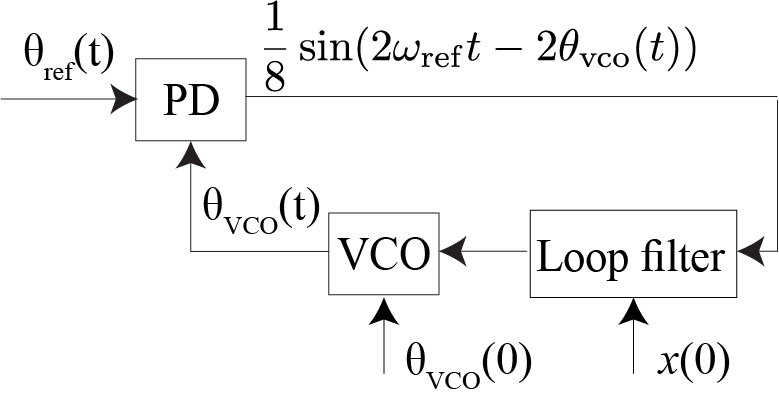 New high-res version of Costas-pll model